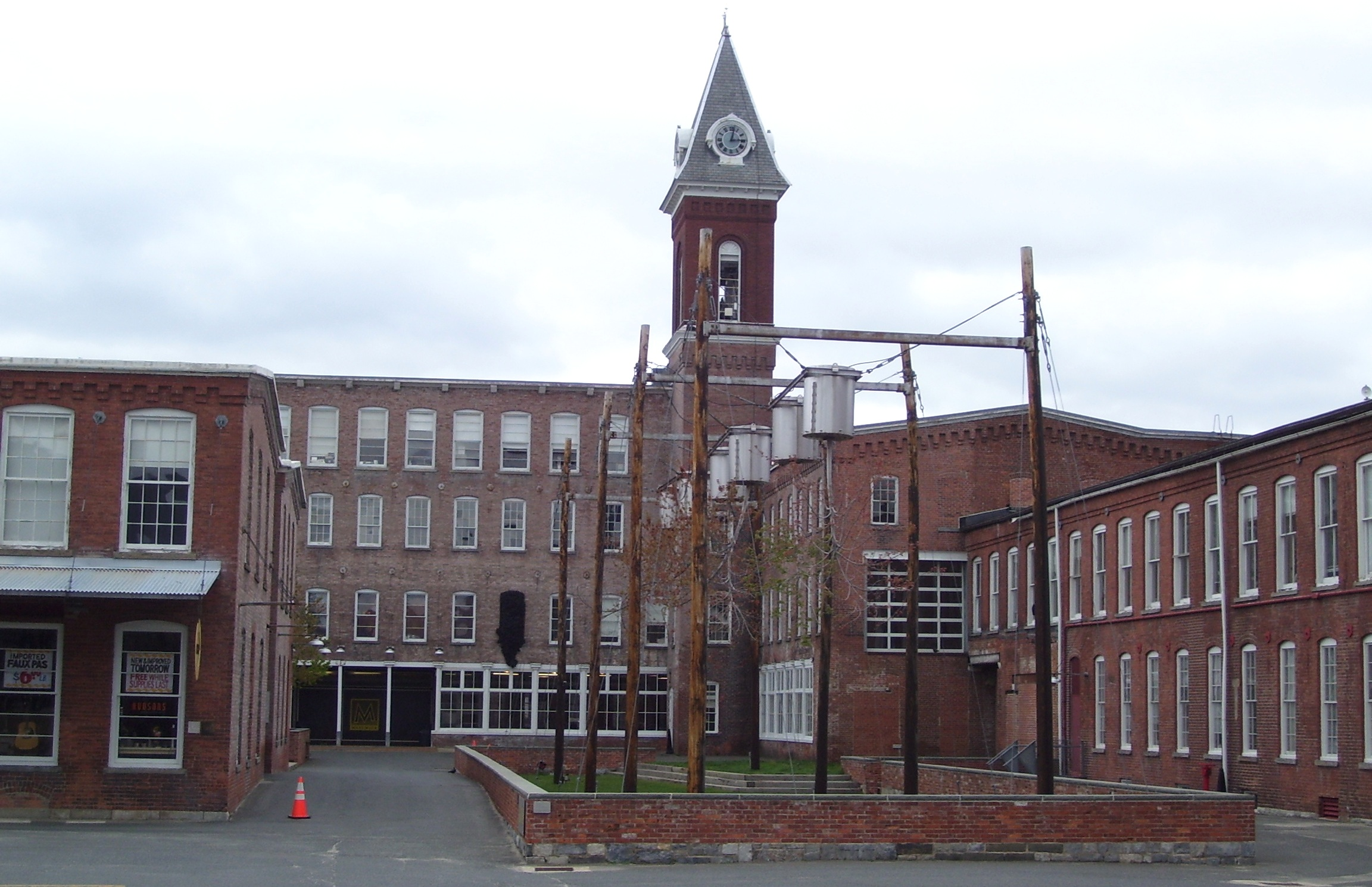 The main entrance to MASS MoCA in North Adams, Massachusetts